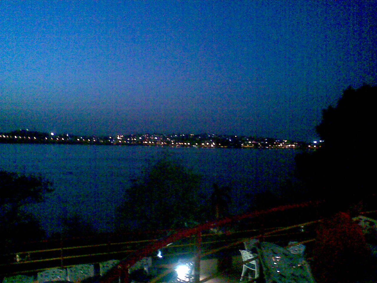 View of Old Bhopal and VIP Road from Winds and Waves restaurant near Upper Lake.